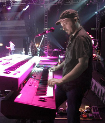 Denny DeMarchi playing keyboard at a Cranberries concert in Oct 2010 in Fortaleza, Brazil.